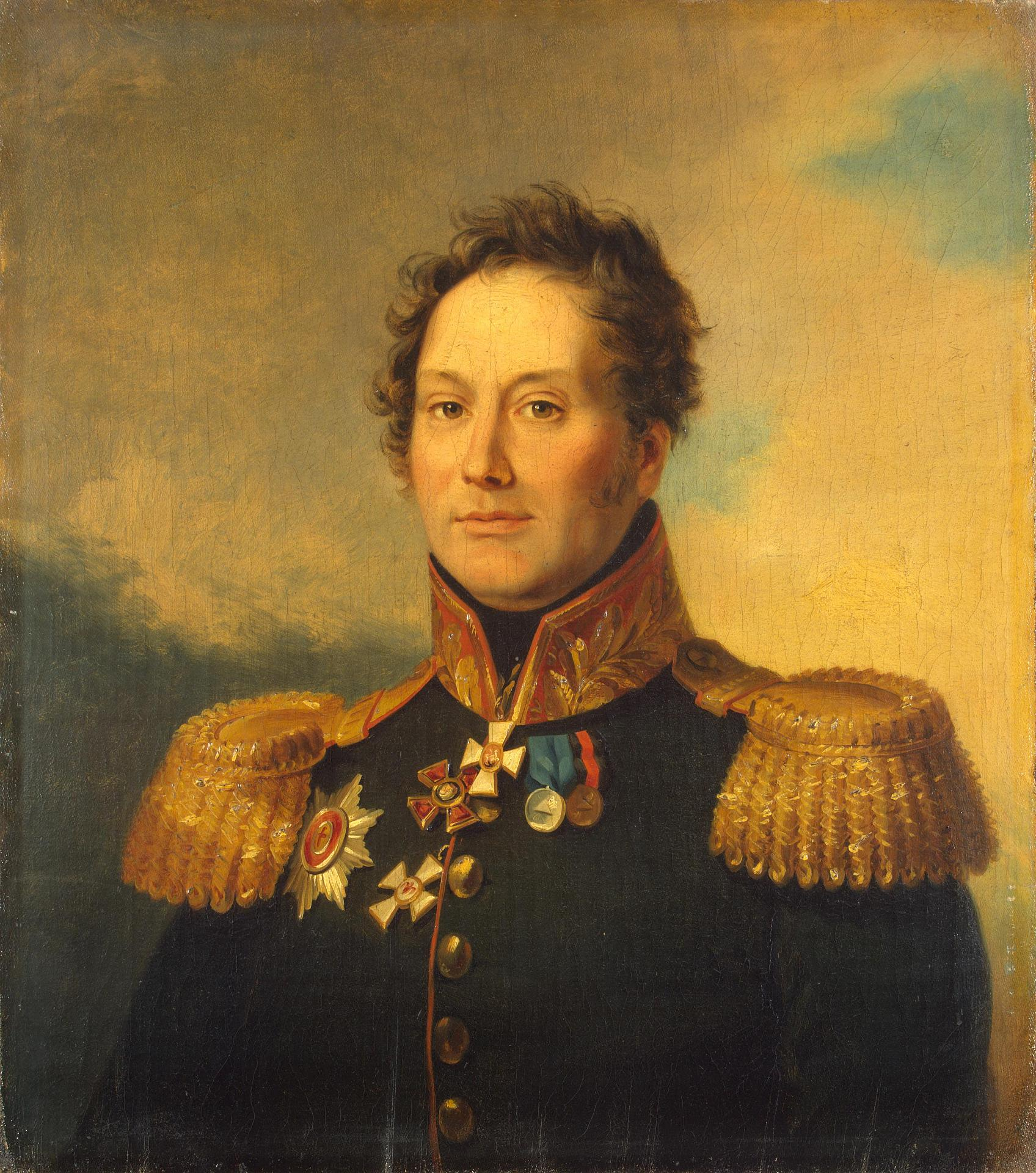 Moisey Ivanovich Karpenko (1775-1854), Russian general